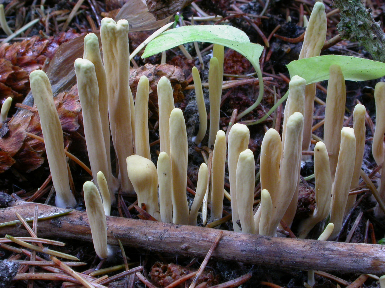 Fruit bodies of the fungus Clavariadelphus ligula. Specimens photographed in Manning Provincial Park, British Columbia, Canada.